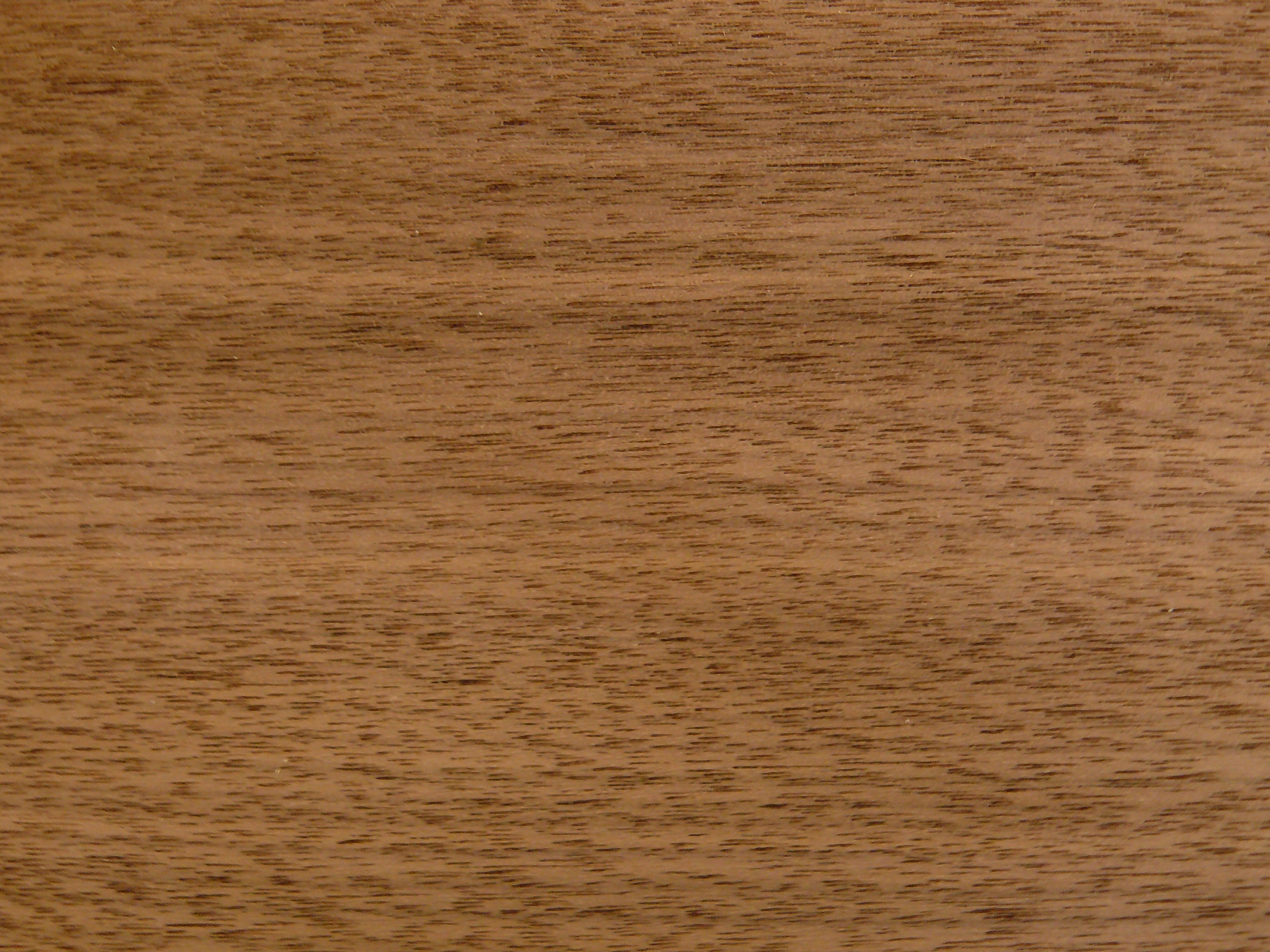 walnut wood